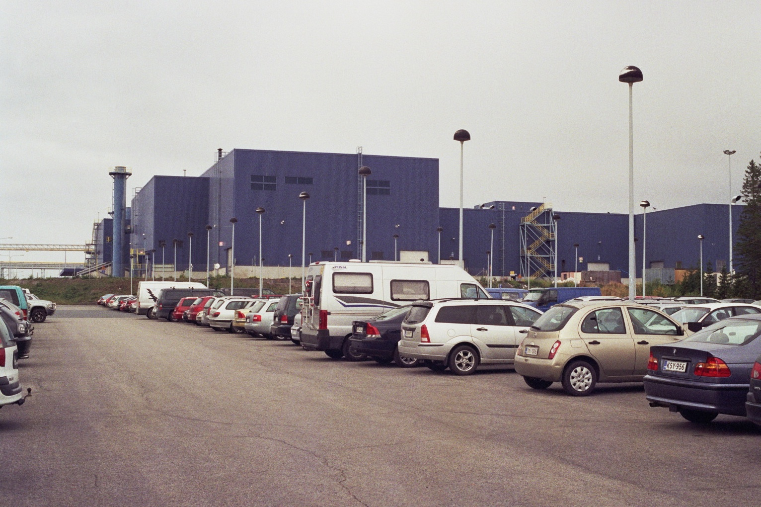 The cold rolling mill of Outokumpu in Tornio, Finland. The building is one of the largest in Finland, about 13/14 hectares in area.